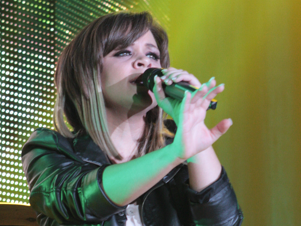 Interprete Puertorriqueña